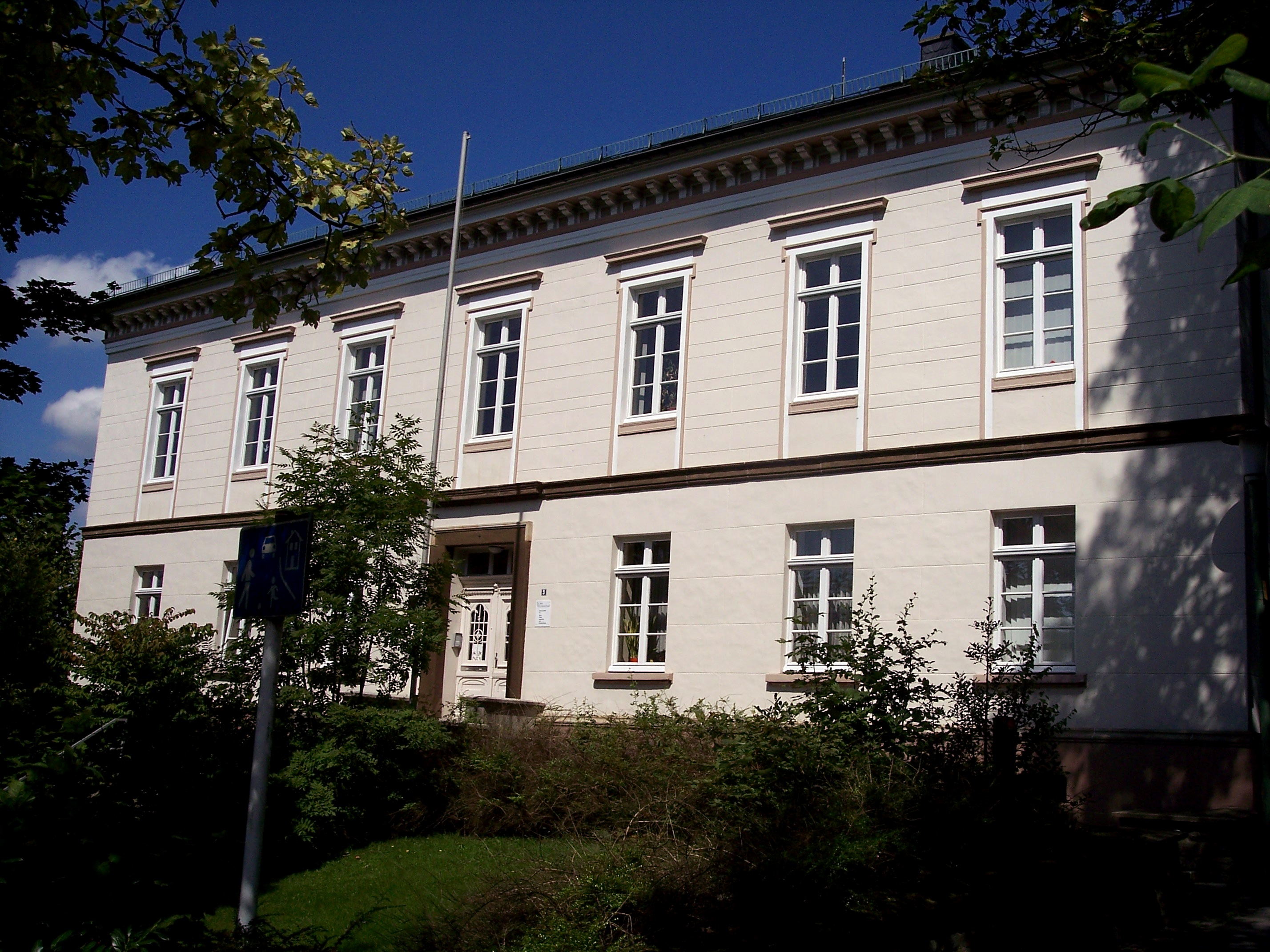 Lüdenscheid, oldest law-court building